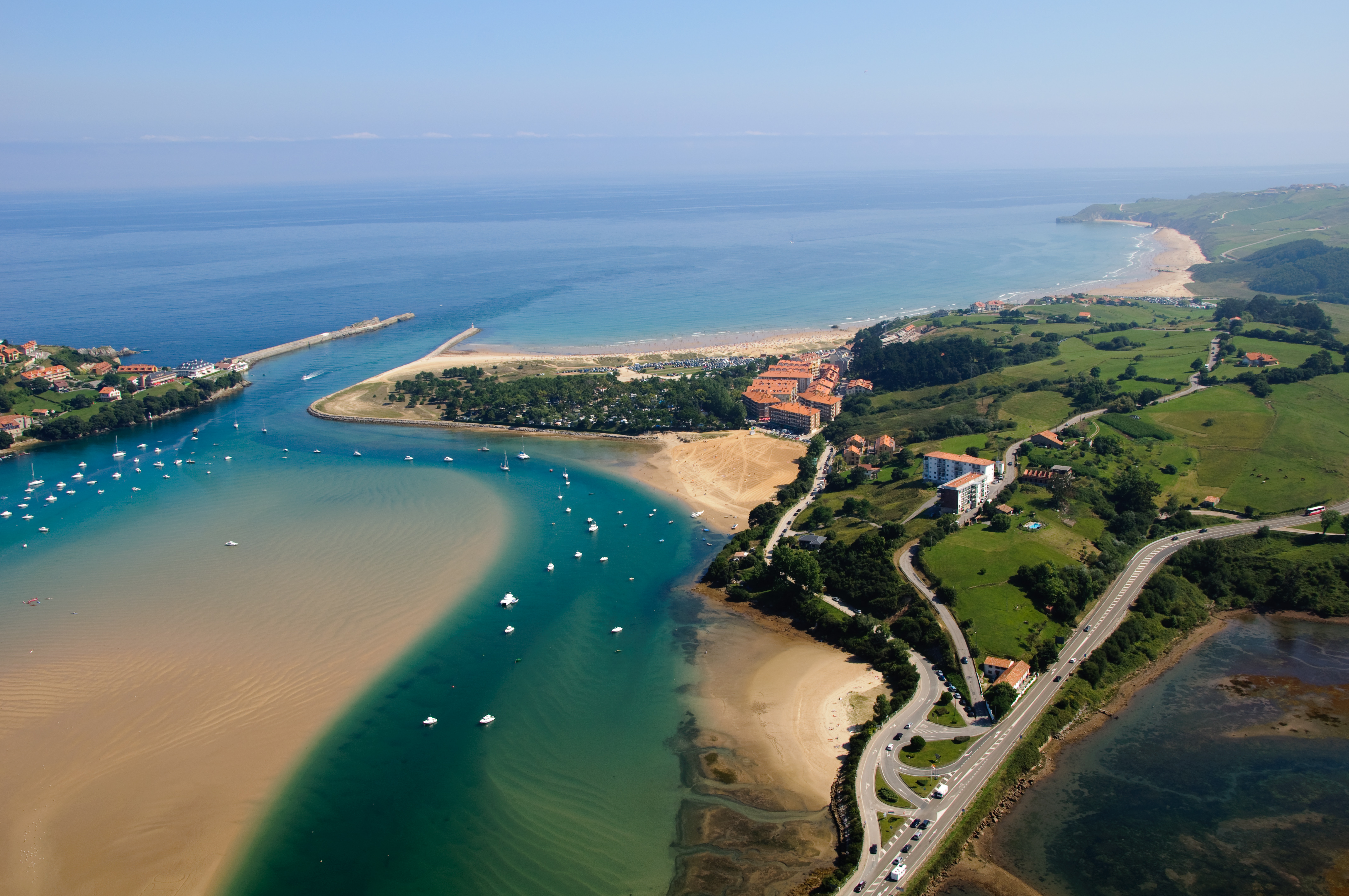 Aerial view of the estuary of San Vicente de la Barquera (Cantabria, Spain).